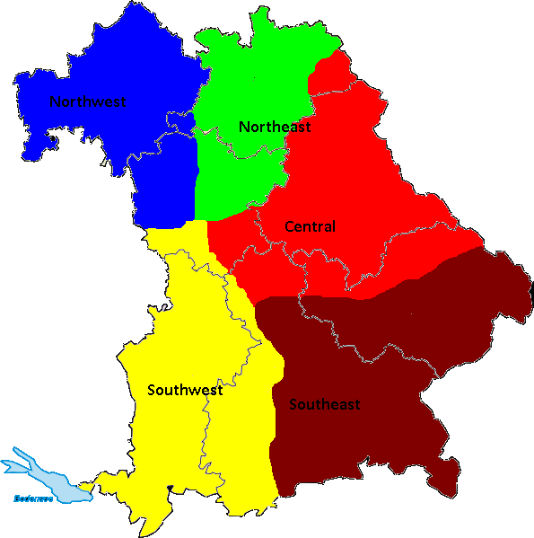 Map of the five Bavarian football Landesligas within their boundries 2012 onwards. The borders of the Bezirke are shown in the background.